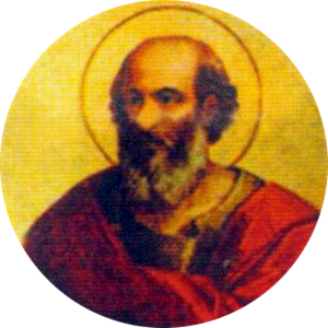 Portait of Pope Felix III in the Basilica of Saint Paul Outside the Walls, Rome